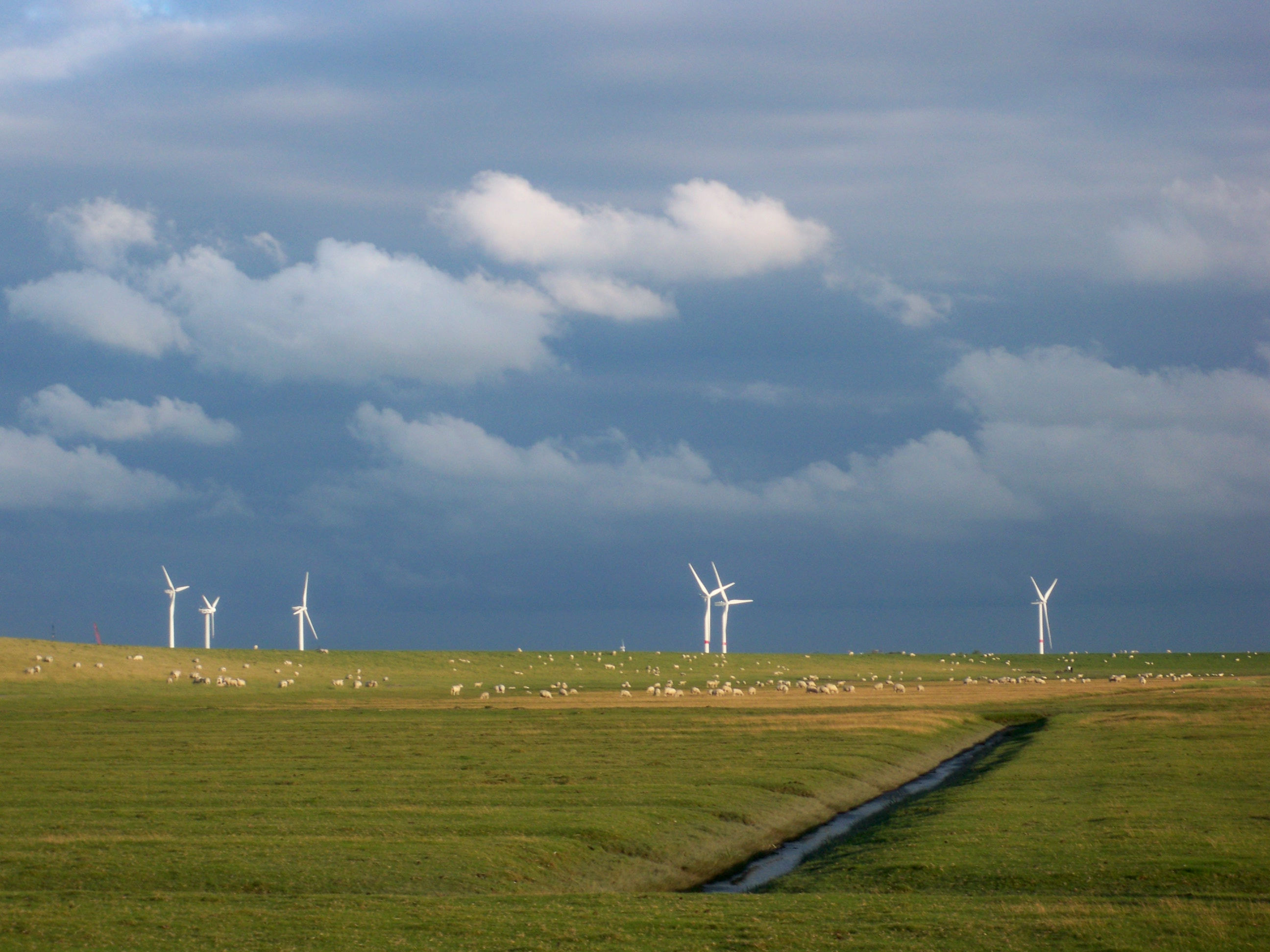 Husum, Schleswig-Holstein, land on the seaside of a dike (foreland)